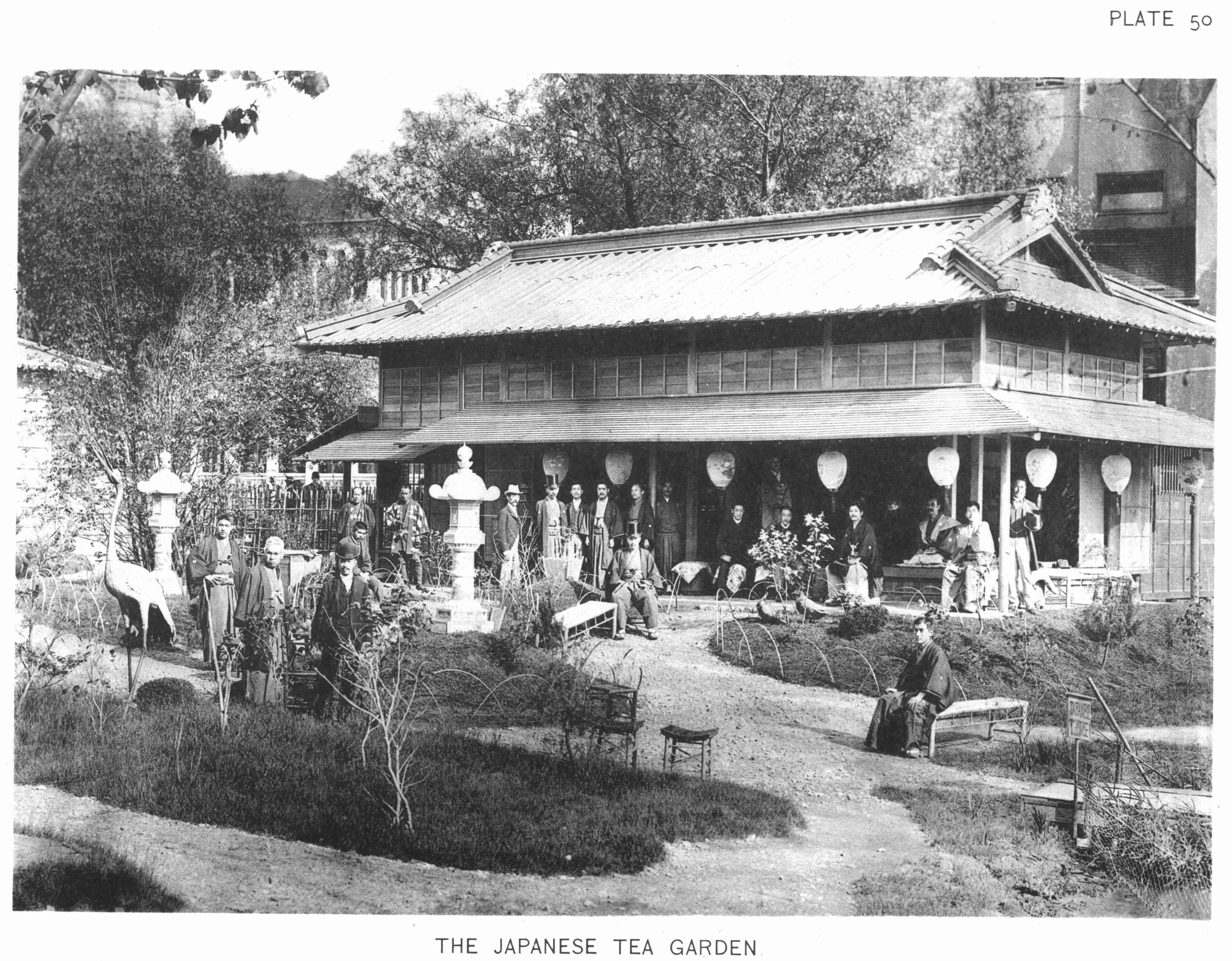 Official Views Of The World's Columbian Exposition: The Japanese Tea Garden